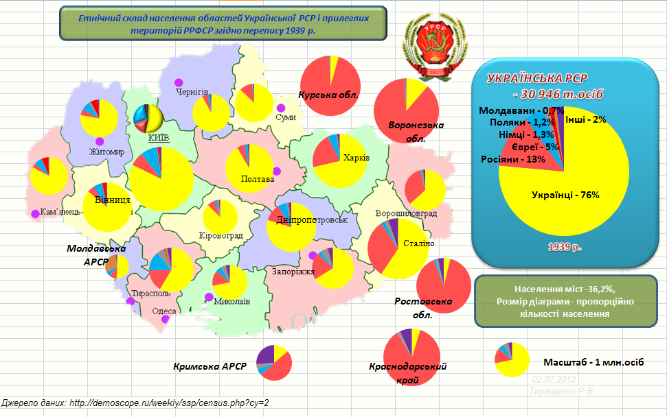 Ethnic composition of population of the USSR according to the census in 1939